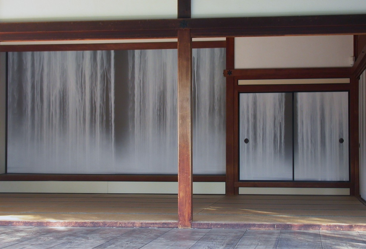 View of murals by Japanese painter Senju Hiroshi at Shofuso (The Japanese House and Garden) in Fairmount Park, Philadelphia.